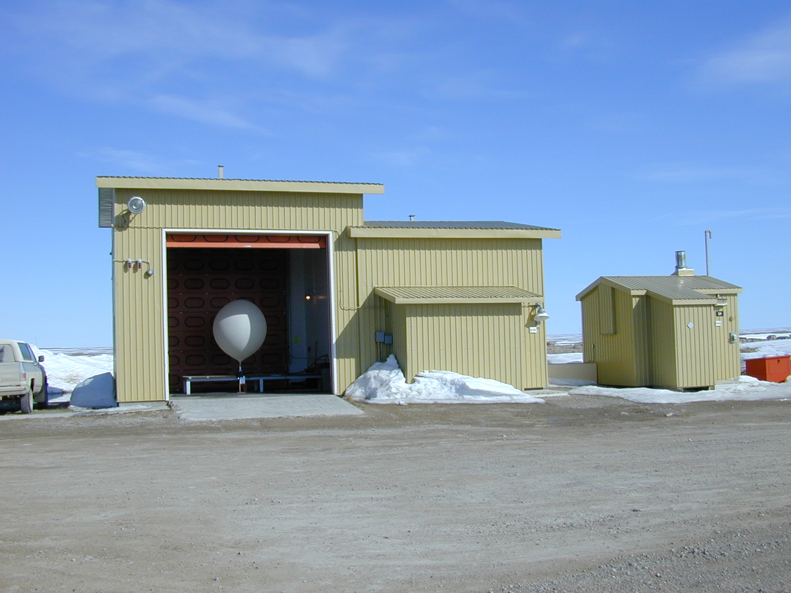 Hydrogen filled balloon ready for launch. On the right is the hydrogen shed and on the far right is the heater shed, which is seperate due to the possiblity of fire. Photo taken at Cambridge Bay Upper Air, Nunavut, Canada on 13th June 1999 at 23:10 UTC (17:10 MDT).